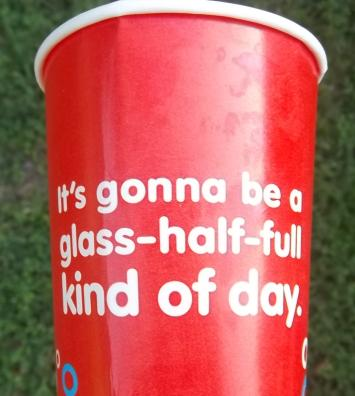 This cup shows an anti-proverb used in advertising